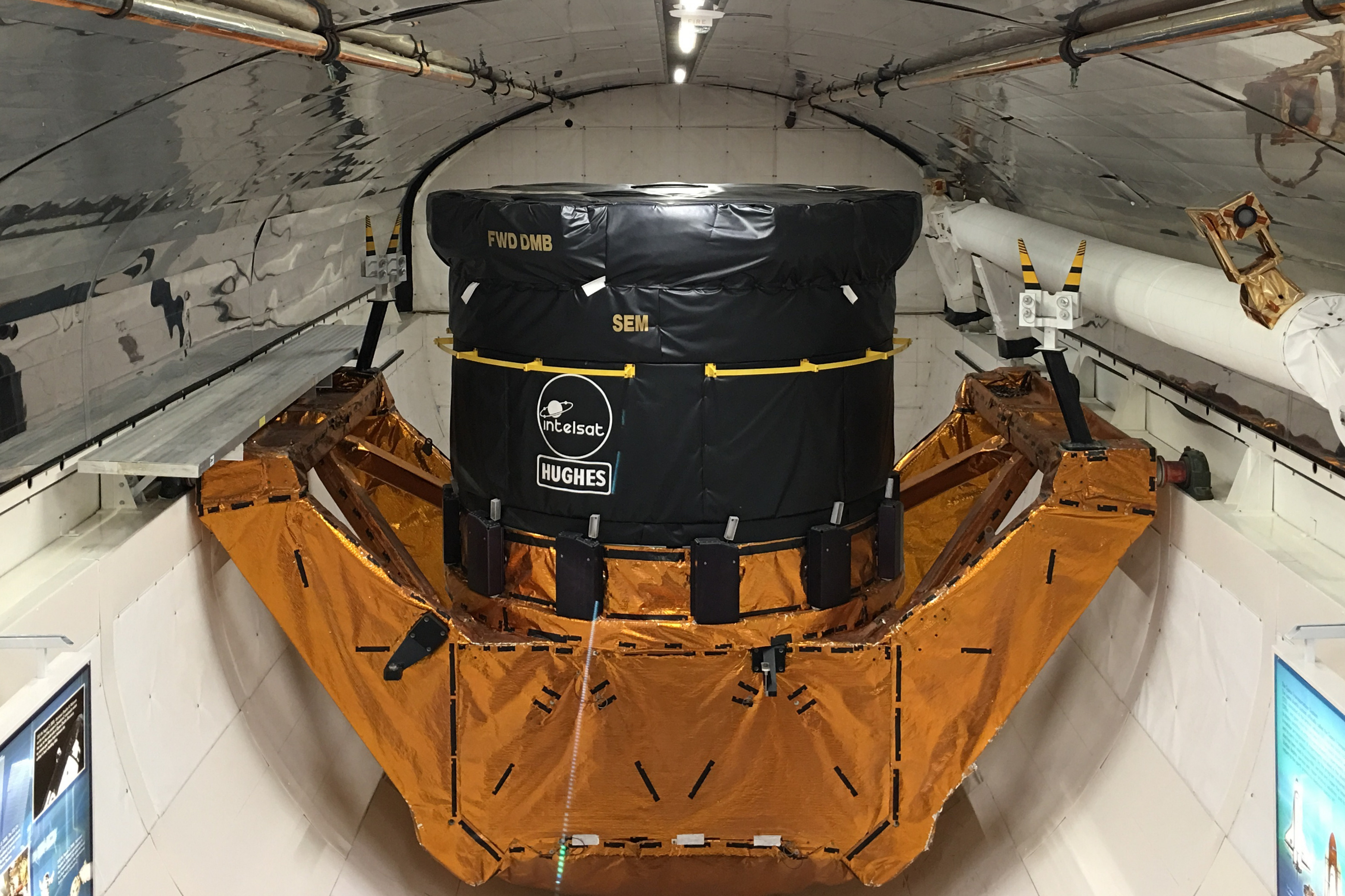 Mockup of a Hughes Intelsat satellite booster in the cargo bay of Space Shuttle Independence at Space Center Houston.